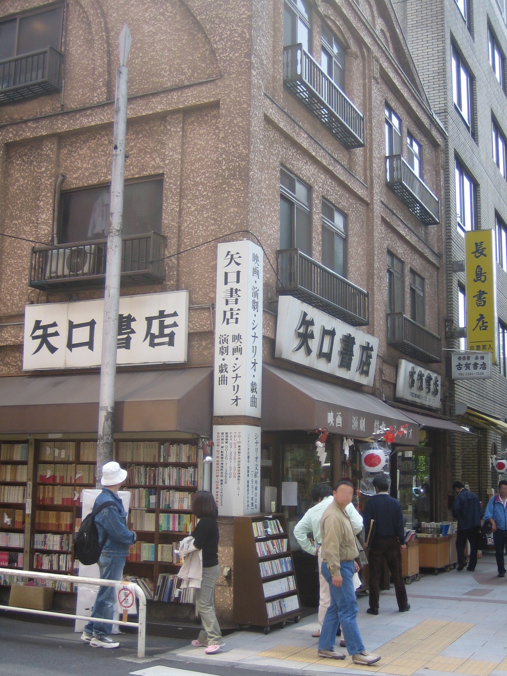 古書店「矢口書店」。映画・演劇関係の書籍を多く扱う。東京都千代田区神田神保町 Secondhand bookstore "Yaguchi Shoten" (矢口書店), at Kanda-Jinbocho (神田神保町 Kanda-Jinbōchō), Chiyoda, Tokyo, Japan